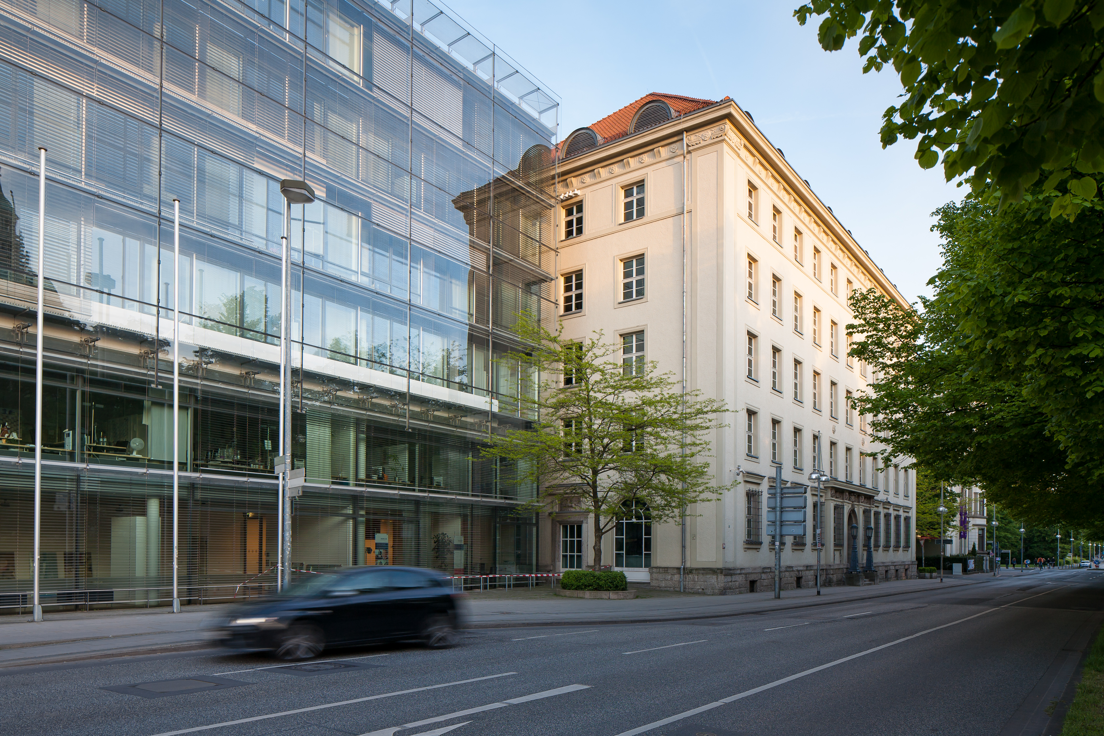 Former office building of Siemens company located at Willy-Brandt-Allee in Hanover, Germany. The house is now part of the Nord/LB office building.